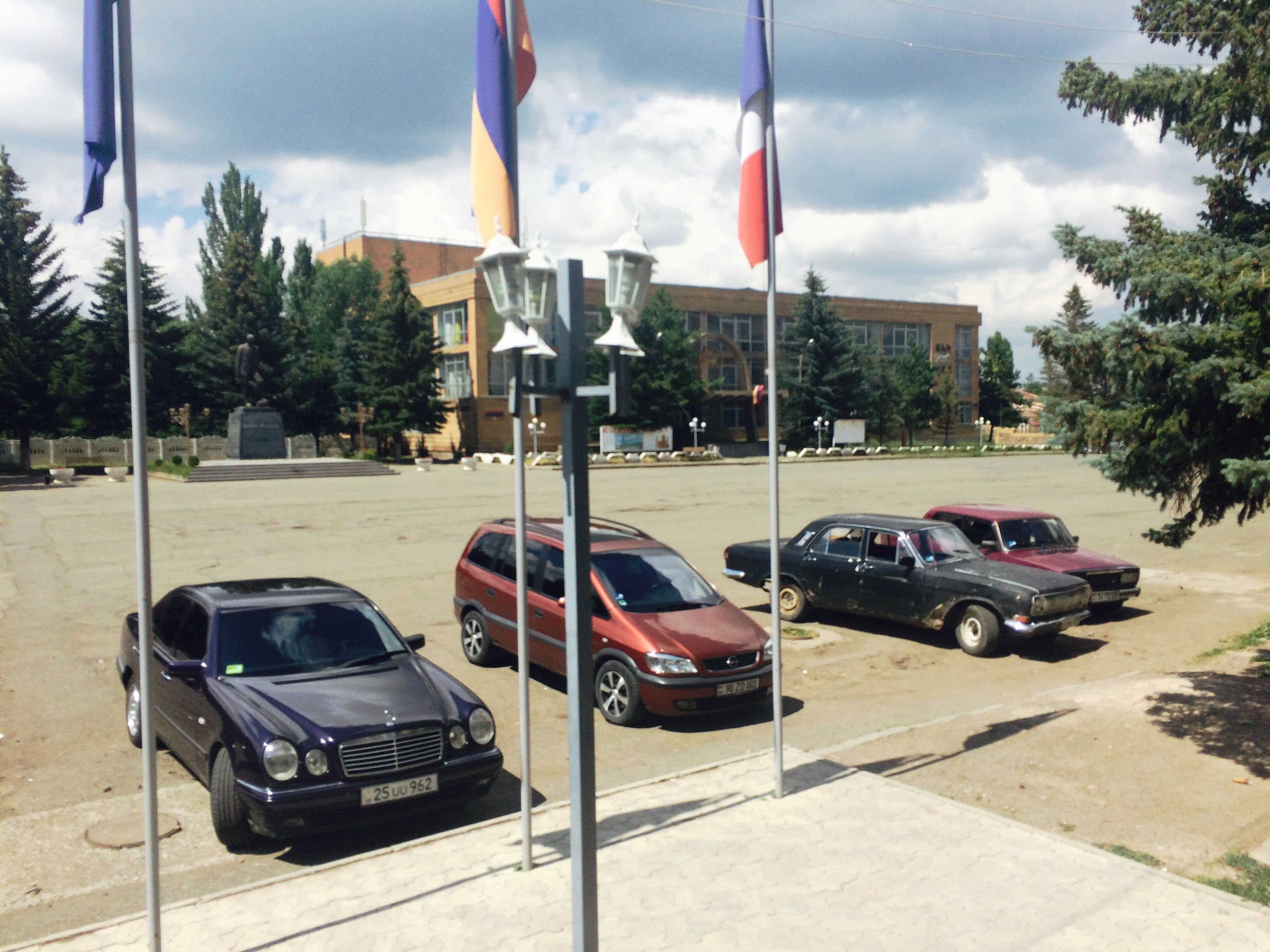 Maralik Main Square.